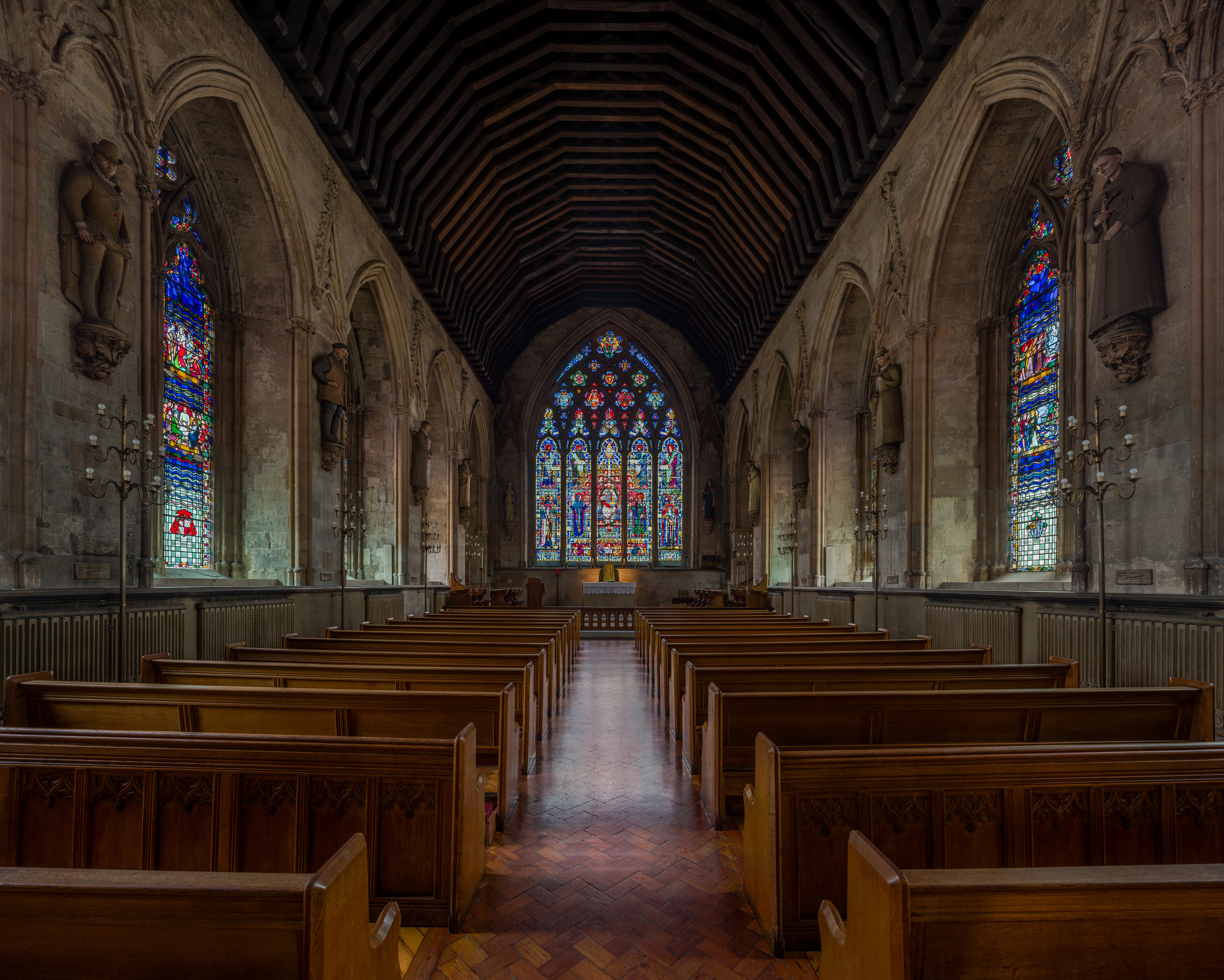 The interior of St Etheldreda's Church in London, England, facing the eastern stained glass window.